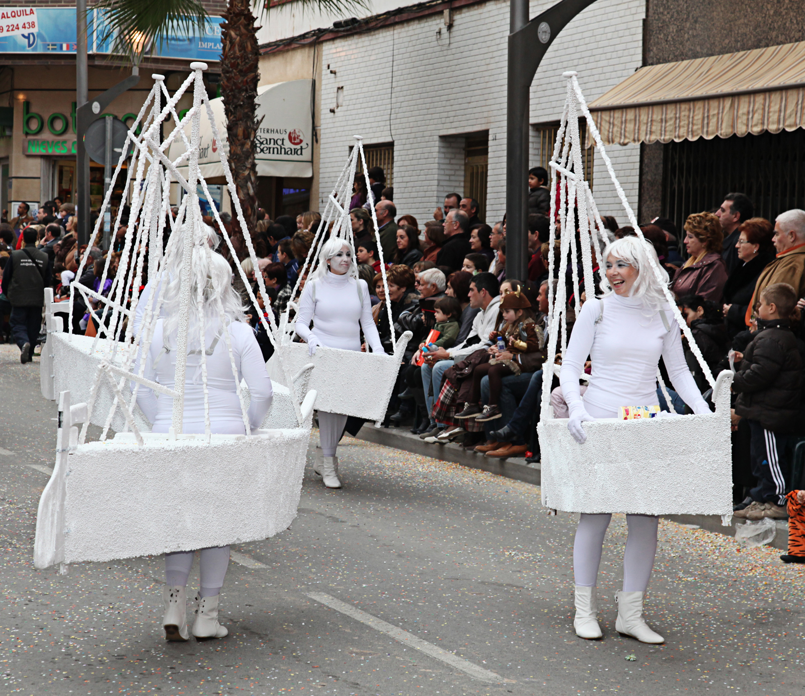 These represent the boats made of salt.